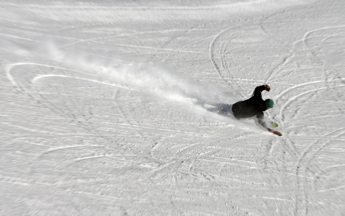 Skier carving